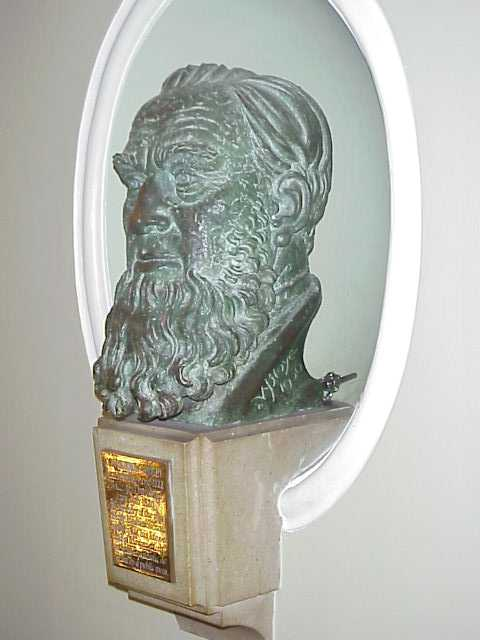 Bronze bust of John Skirrow Wright in the Council House, Victoria Square, Birmingham. Cast by William Bloye from a marble statue by Francis John Williamson.